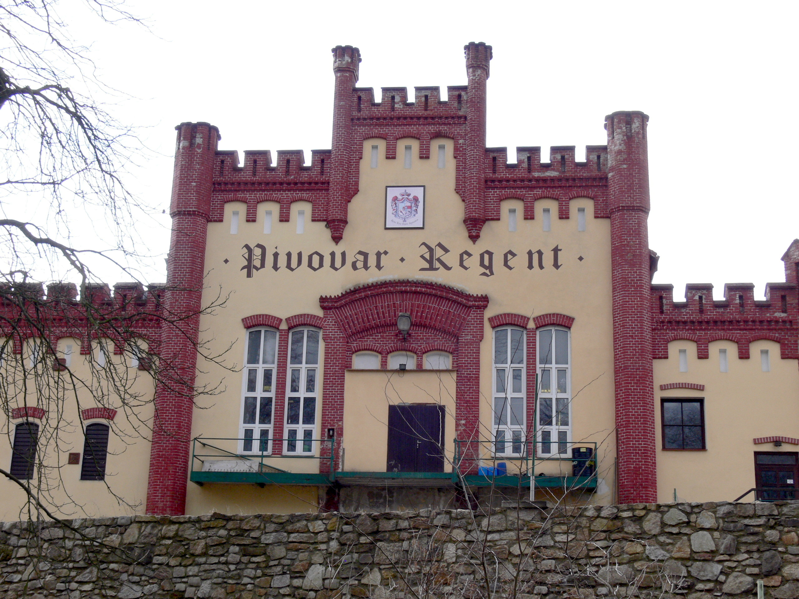 Třeboň - Brewery.